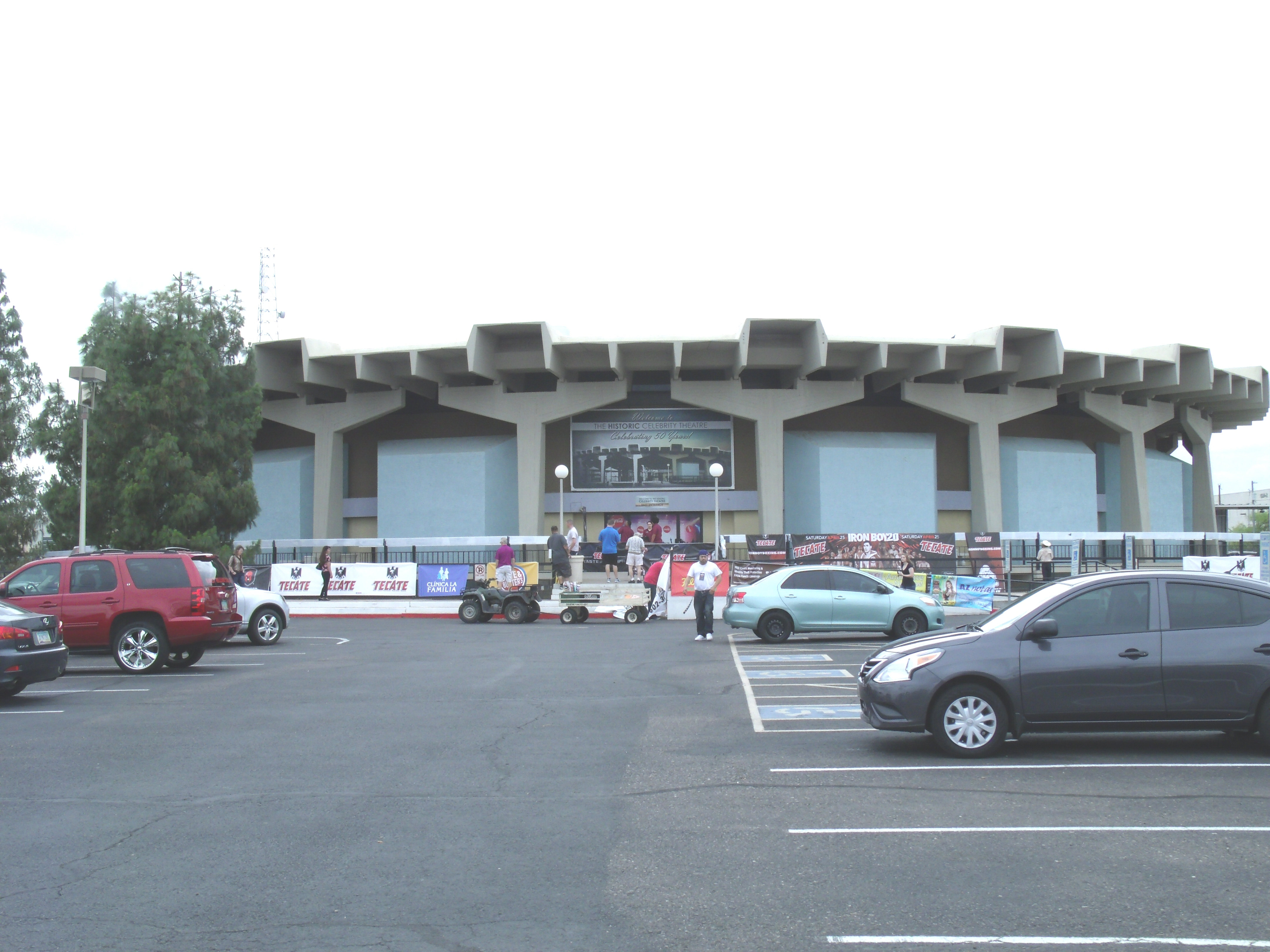 The Phoenix Star Theatre a.k.a. Celebrity Theatre was built in 1963 and is located 440 N. 32nd St. It was listed in the Phoenix Histric Property Register in September 2013.Ð